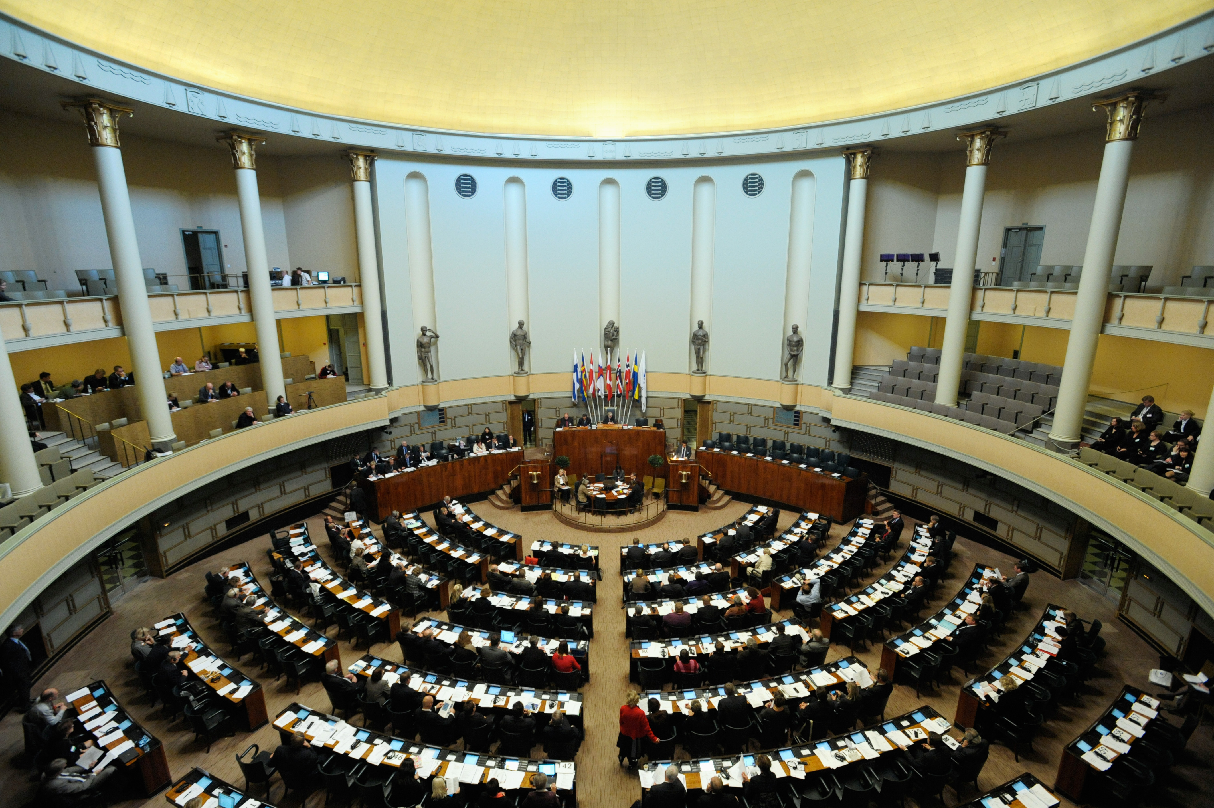 Session Hall of Parliament House during session of the Nordic Council, Helsinki